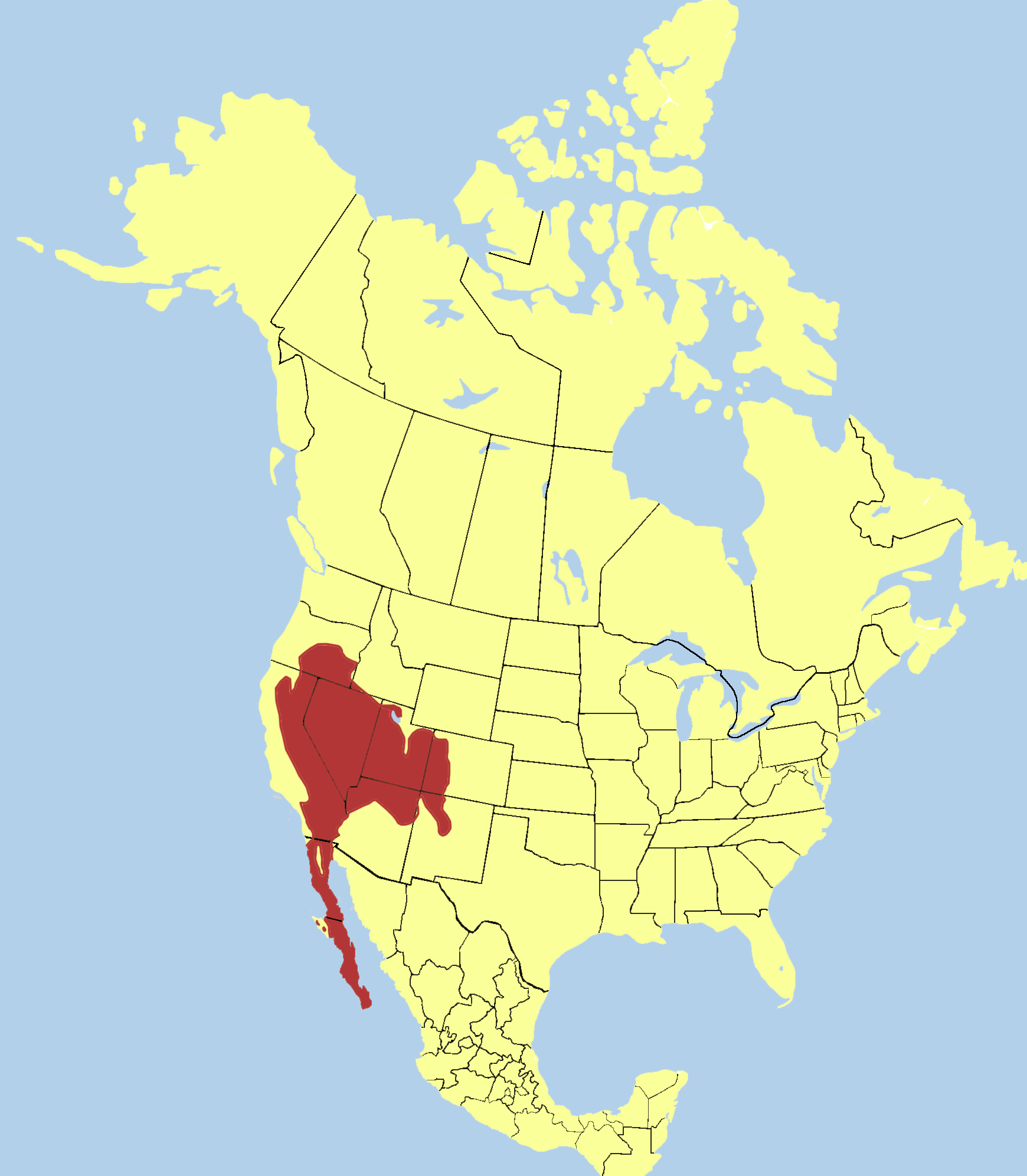 The Distribution of the White-tailed Antelope Squirrel (Ammospermophilus leucurus) — in western North America.